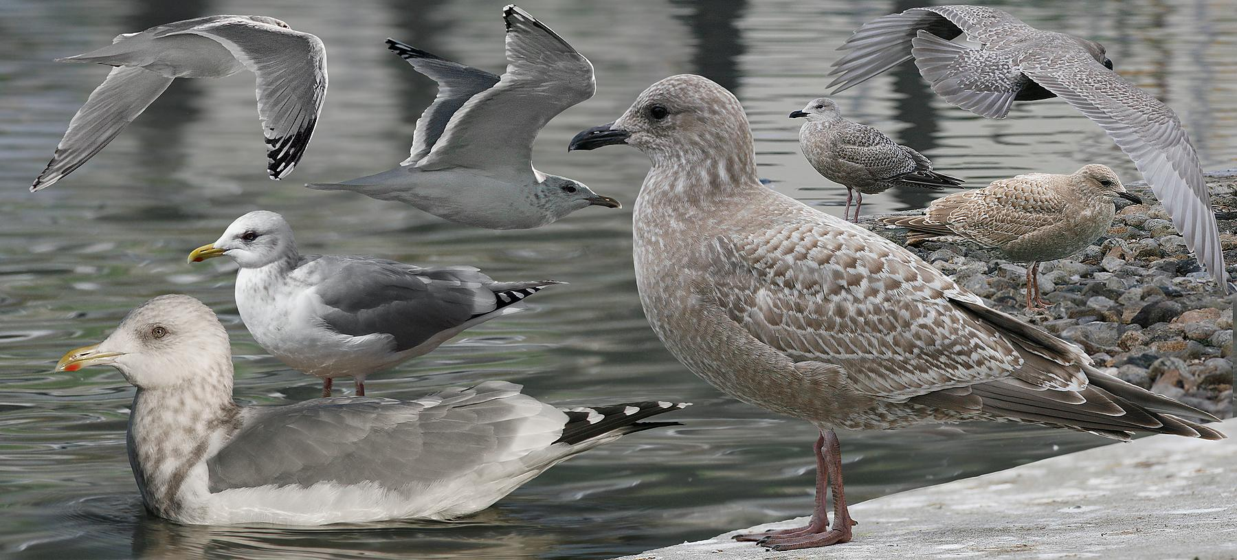 Thayers Gull From The Crossley ID Guide Eastern Birds